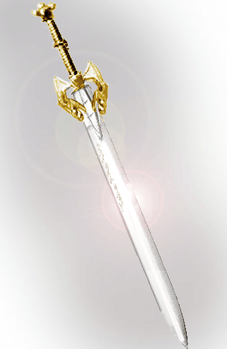 Artist Britton LaRoche. In Welsh legend, King Arthur's sword is known as Caledfwlch... "Arthur's sword in his hand, with a design of two serpents on the golden hilt; when the sword was unsheathed what was seen from the mouths of the two serpents was like two flames of fire, so dreadful that it was not easy for anyone to look." According to legend King Arthur's Sword had the engraving "Take Me Up" on one side and "Cast Me Away" on the other. King Arthur's Sword Also Known as Excalibur